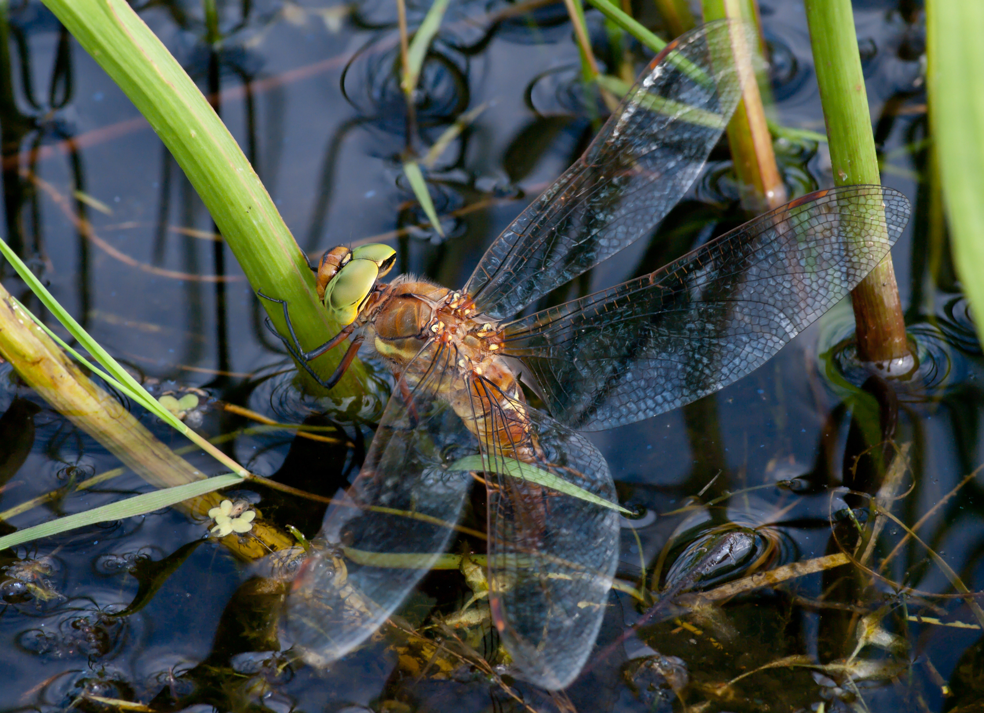 Female Green-eyed Hawker (Aeshna isoceles); laying eggs (at water plant Alisma sp.), with abdomen submerged.